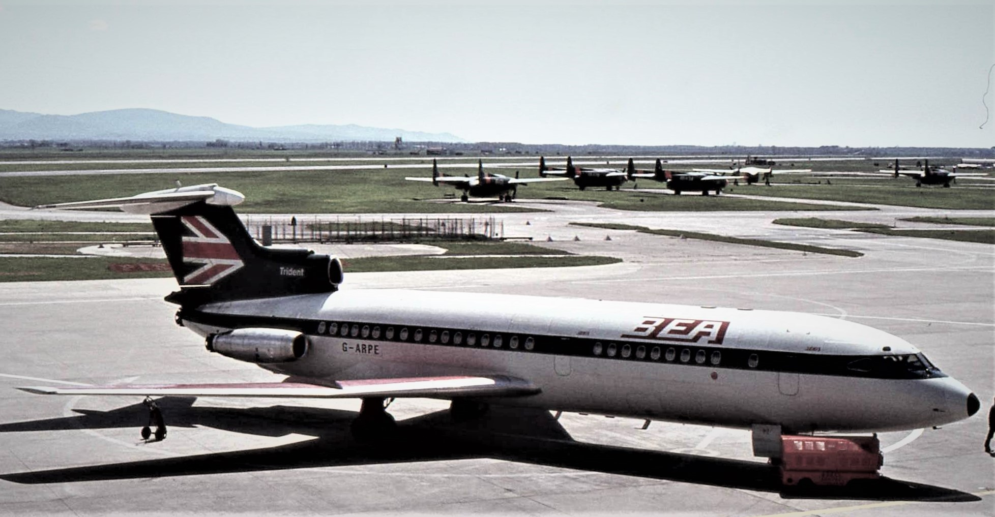 British European Airways Hawker Siddeley Trident 1C G-ARPE, c/n 2105 delivered to BEA on July 10, 1964. Here is taken at Pisa Galileo Galilei Airport in 1974.